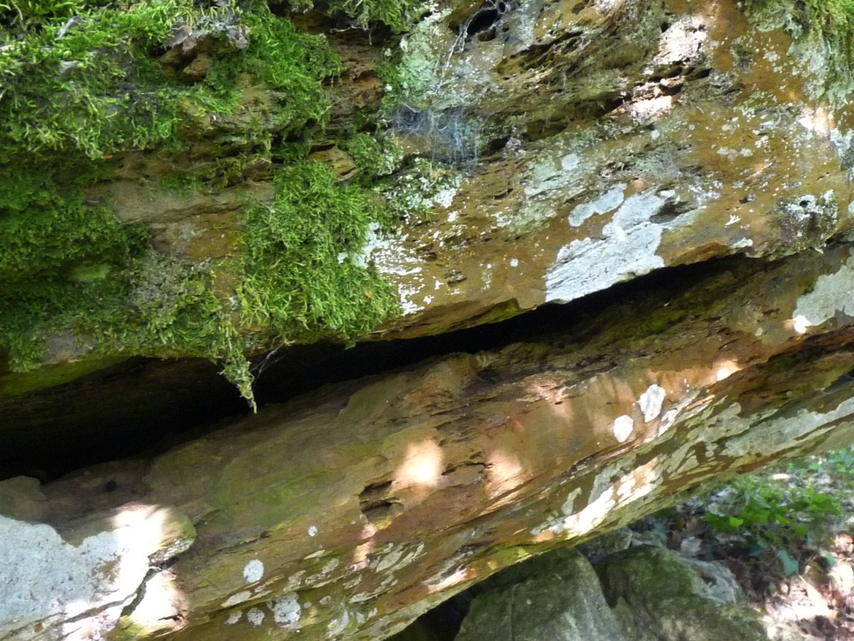 Iron trapped in Cretaceous limestone, forming tables